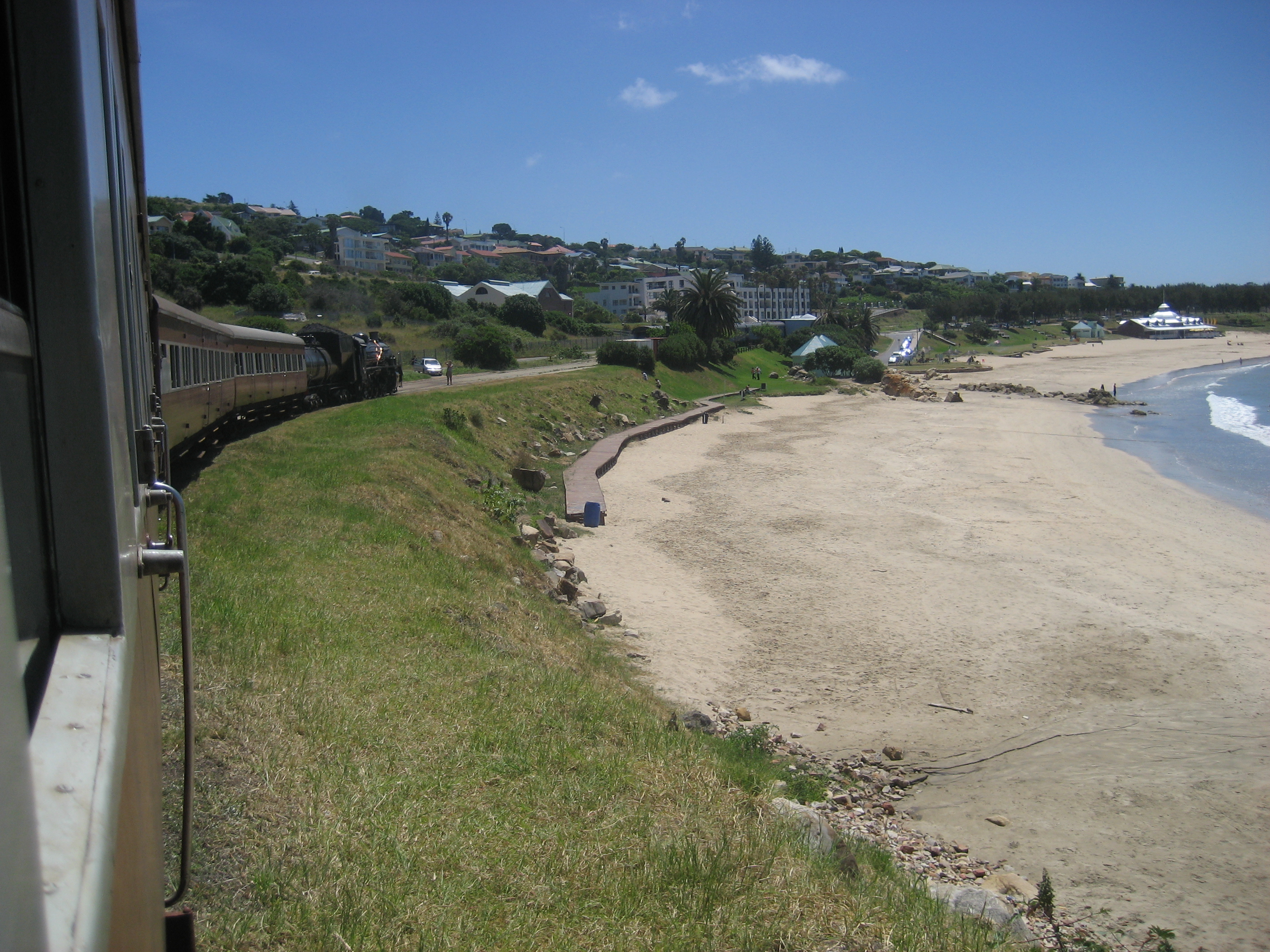 The Outeniqua Choo-Tjoe at Santos Beach in Mossel Bay (South Africa)